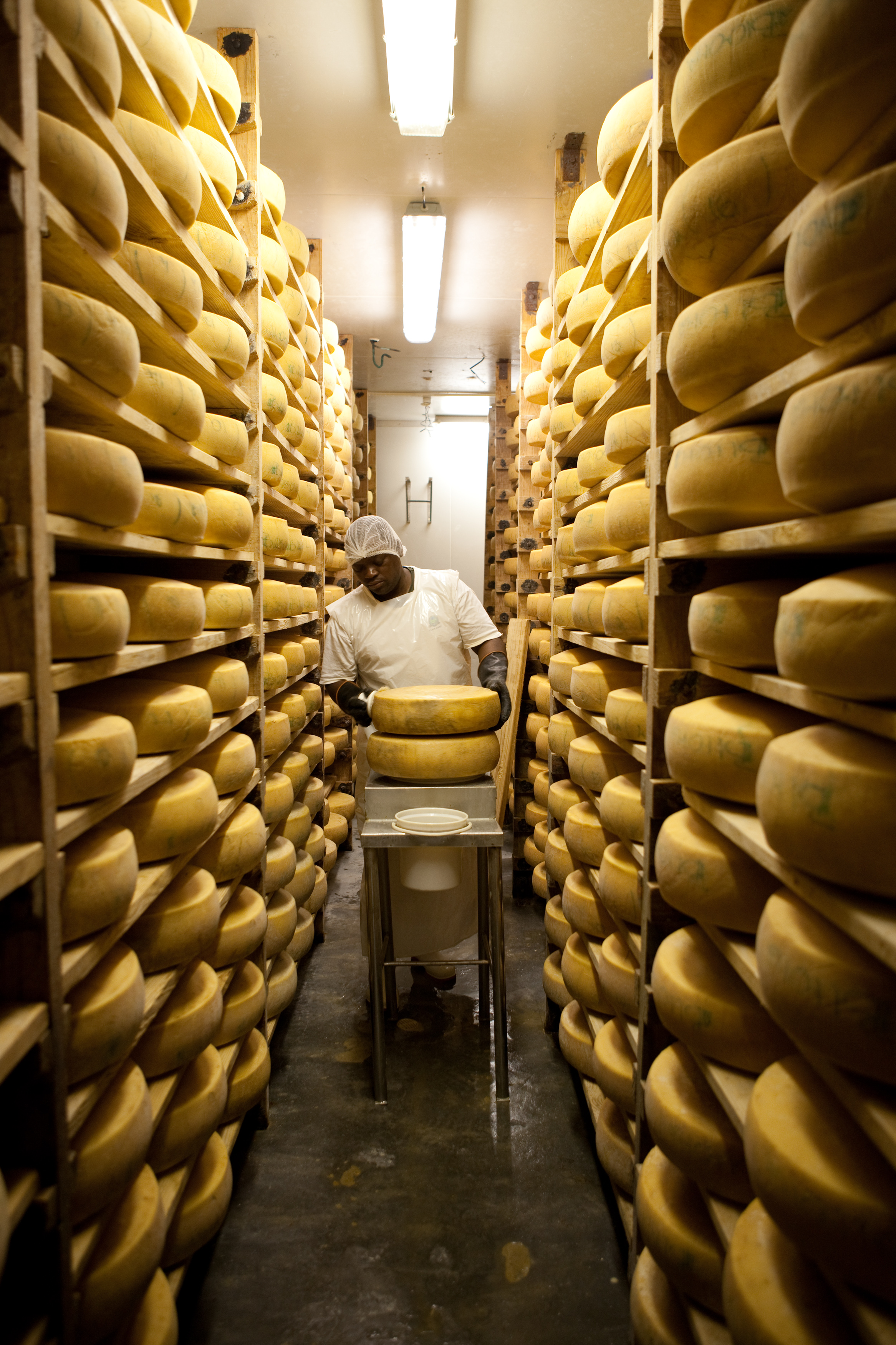 Brushed Rind Cheese This is an image of "African people at work" from South Africa